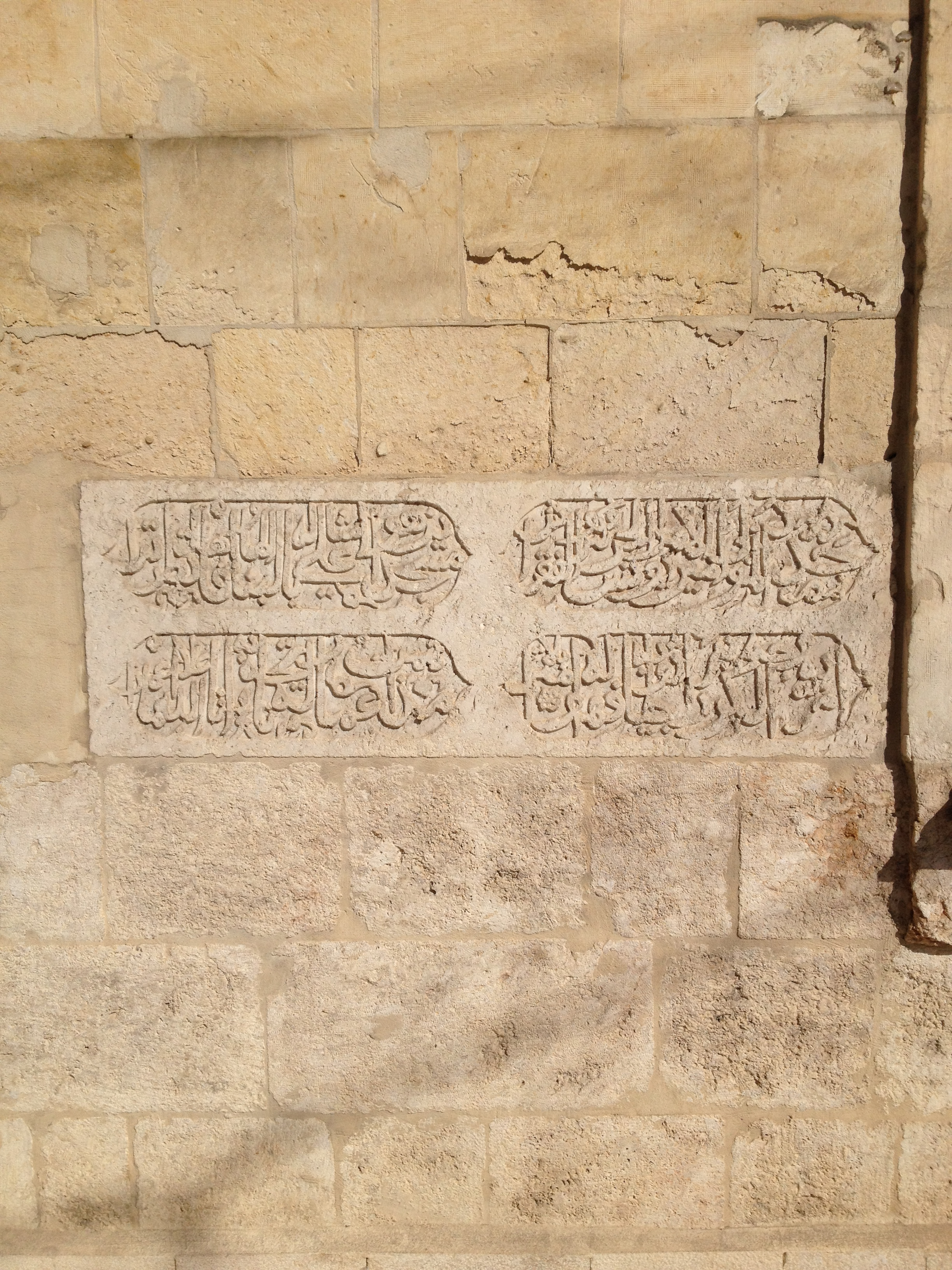 Stone on the wall of the river mosque which was built by Emir Younis EL- Harfush.